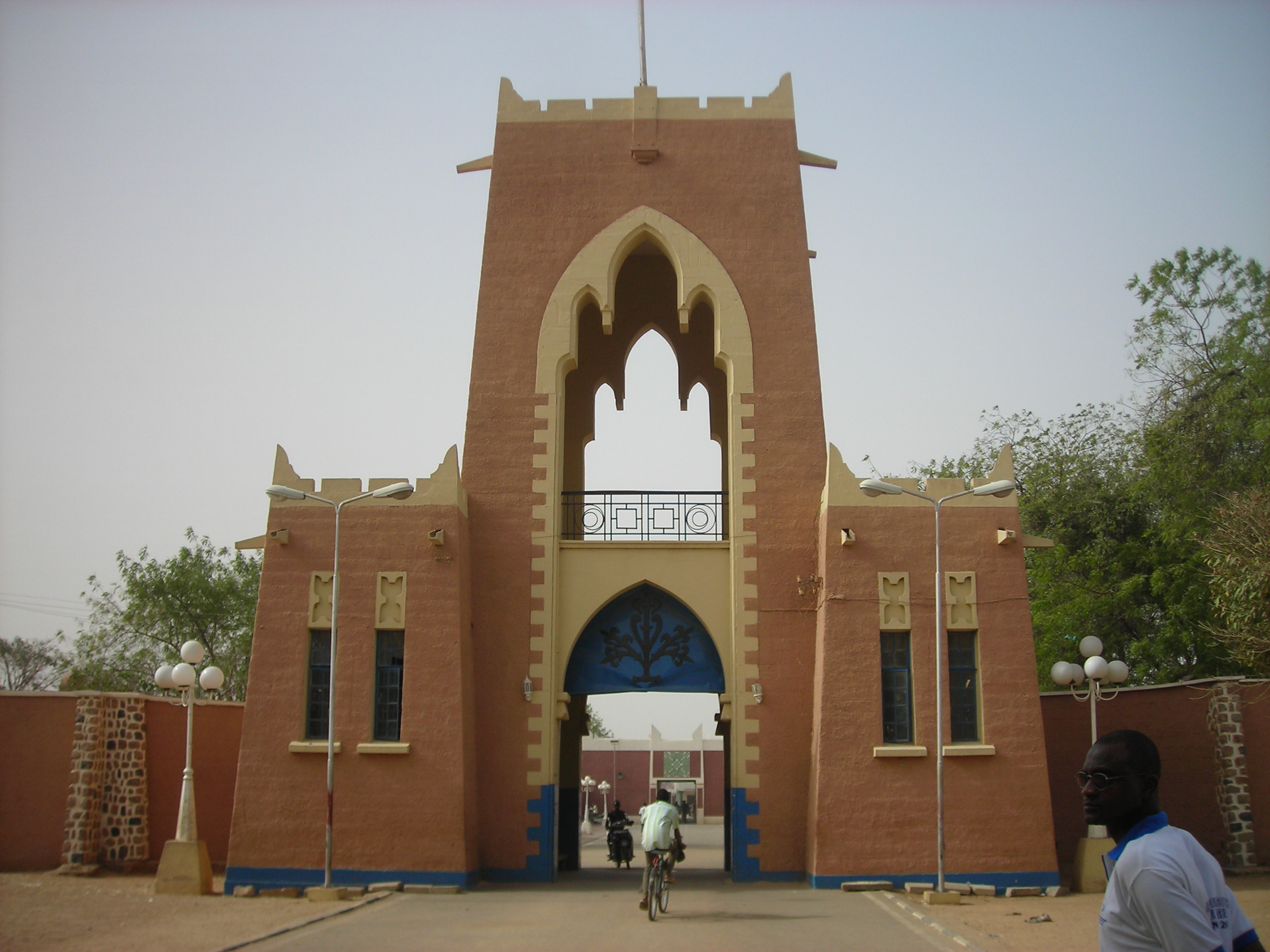 Main gate of the Gidan Rumfa in 2009. The Gidan Rumfa is the palace of the Emir of Kano. (Kano, Nigeria)